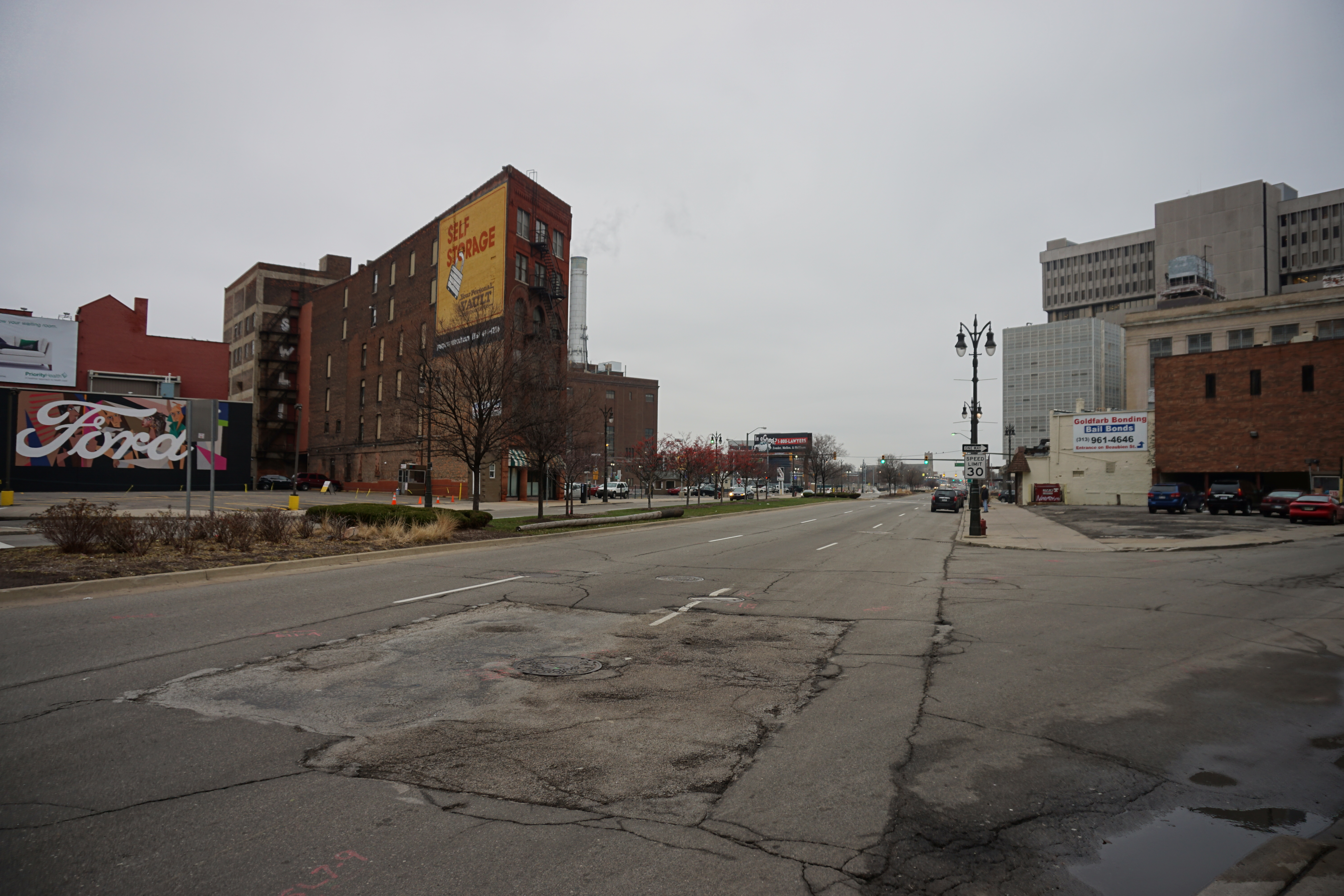 Gratiot Avenue in Detroit, Michigan (United States).